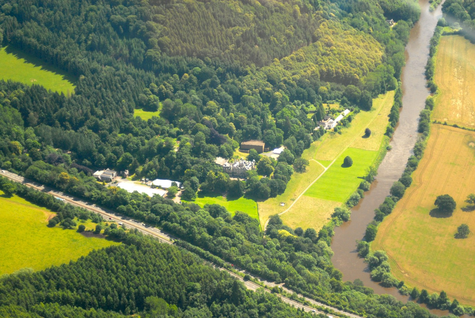 Wyastone Leys from the air